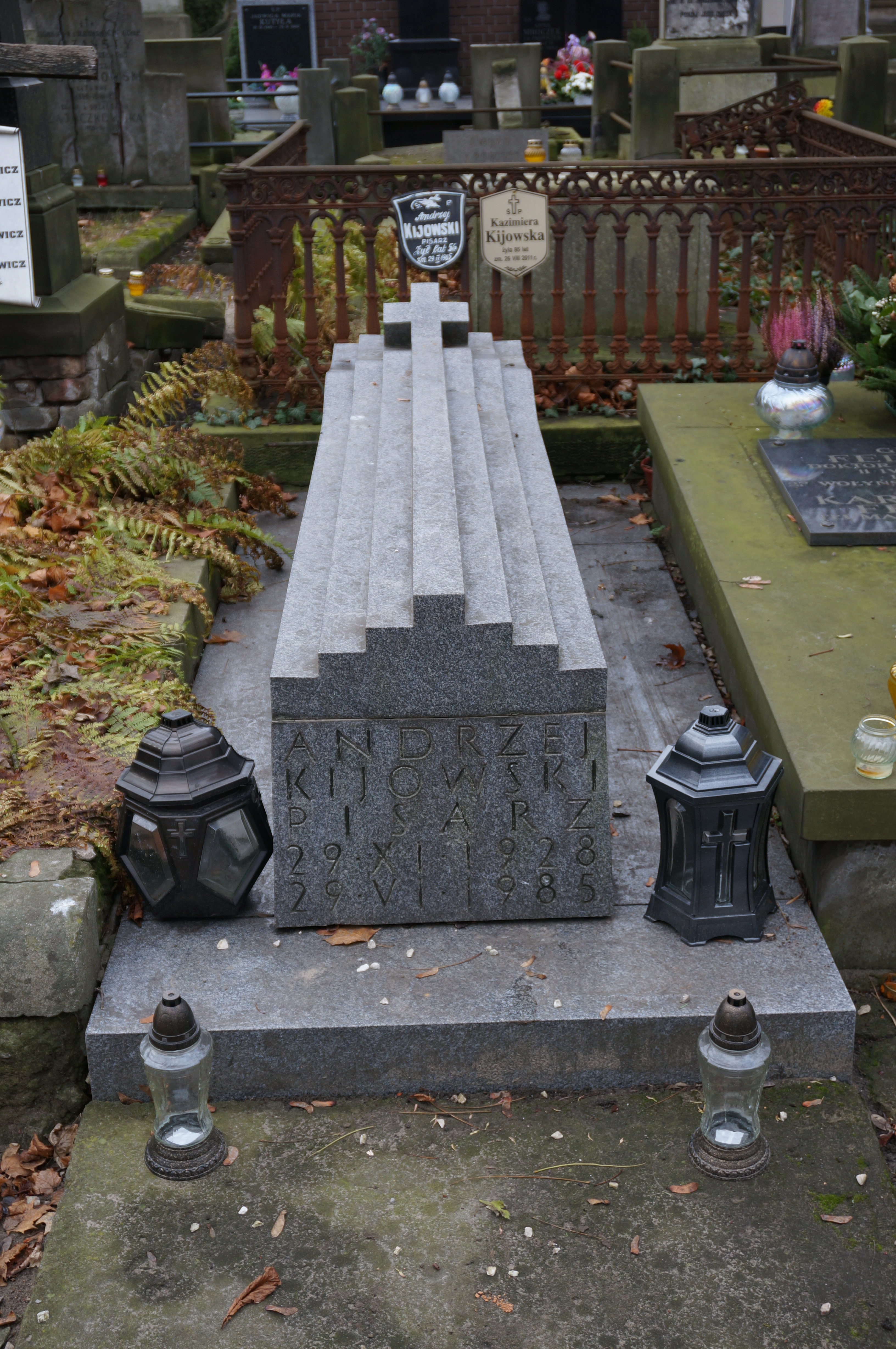 The grave of Kazimiera Kijowska at the Powązki Cemetery (section 163, row 1, grave 8)